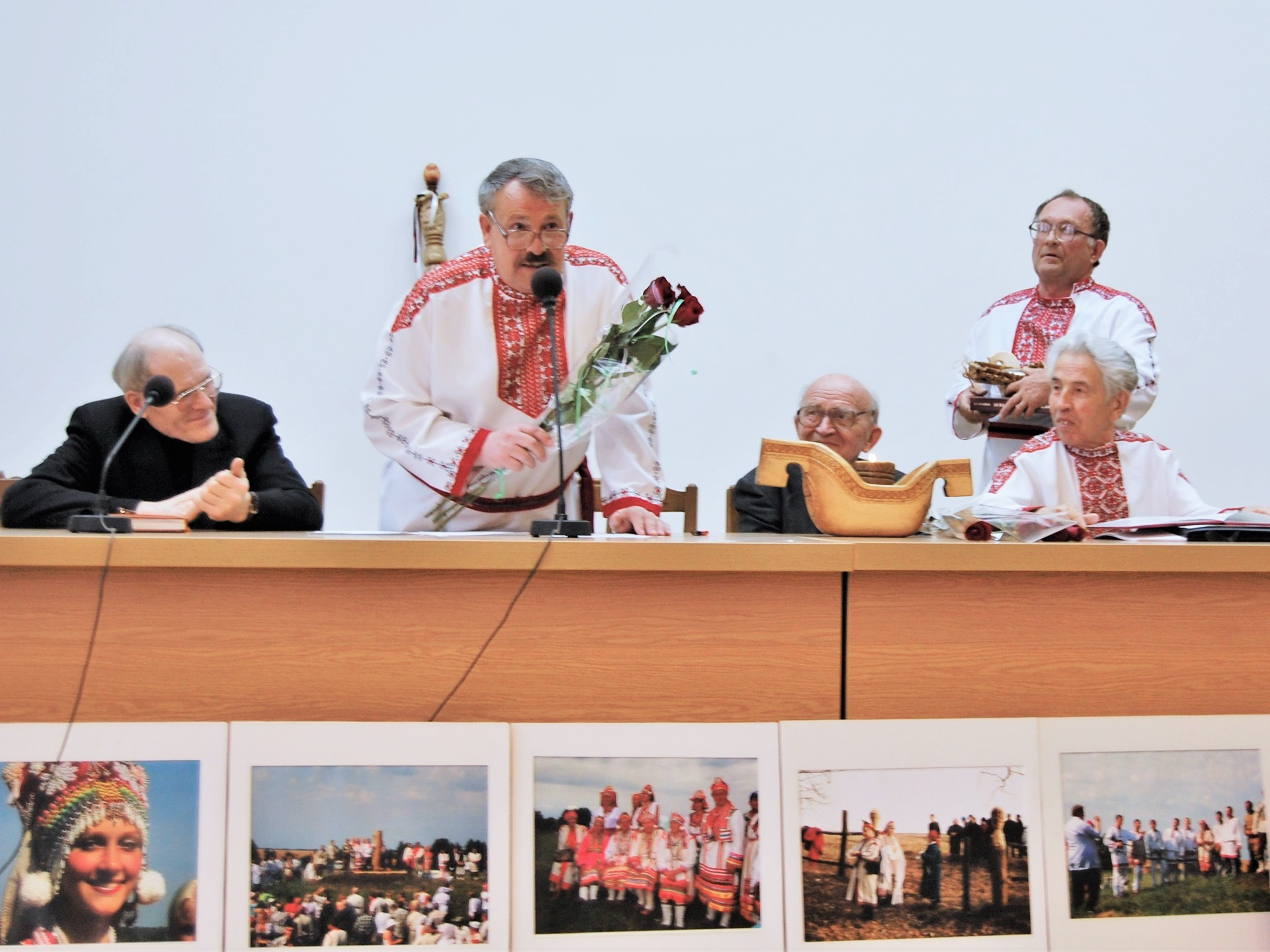 Erzya language Day (erz. Erzyan Kelen Chi), Saransk, April 16, 2008